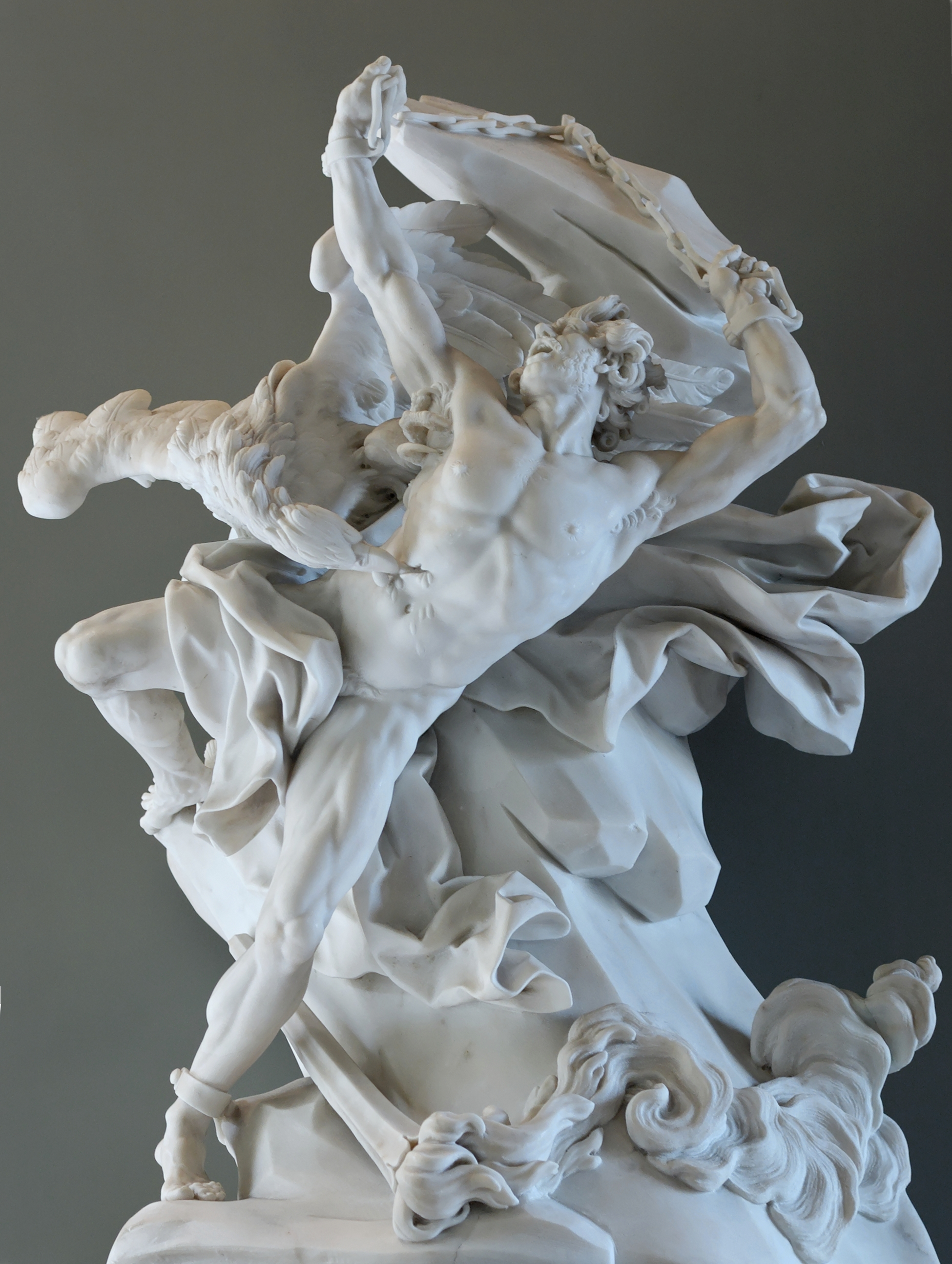 Reception piece for the French Royal Academy, 1762.